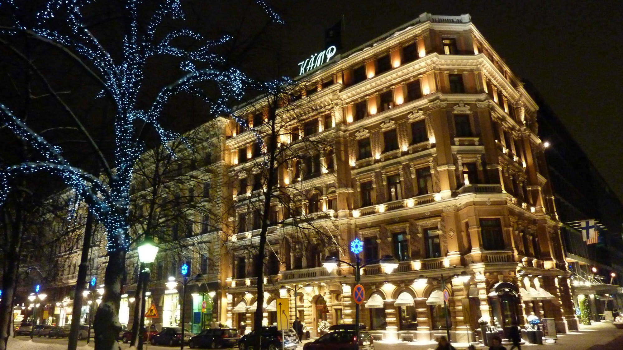 Hotel Kämp by Night in Winter